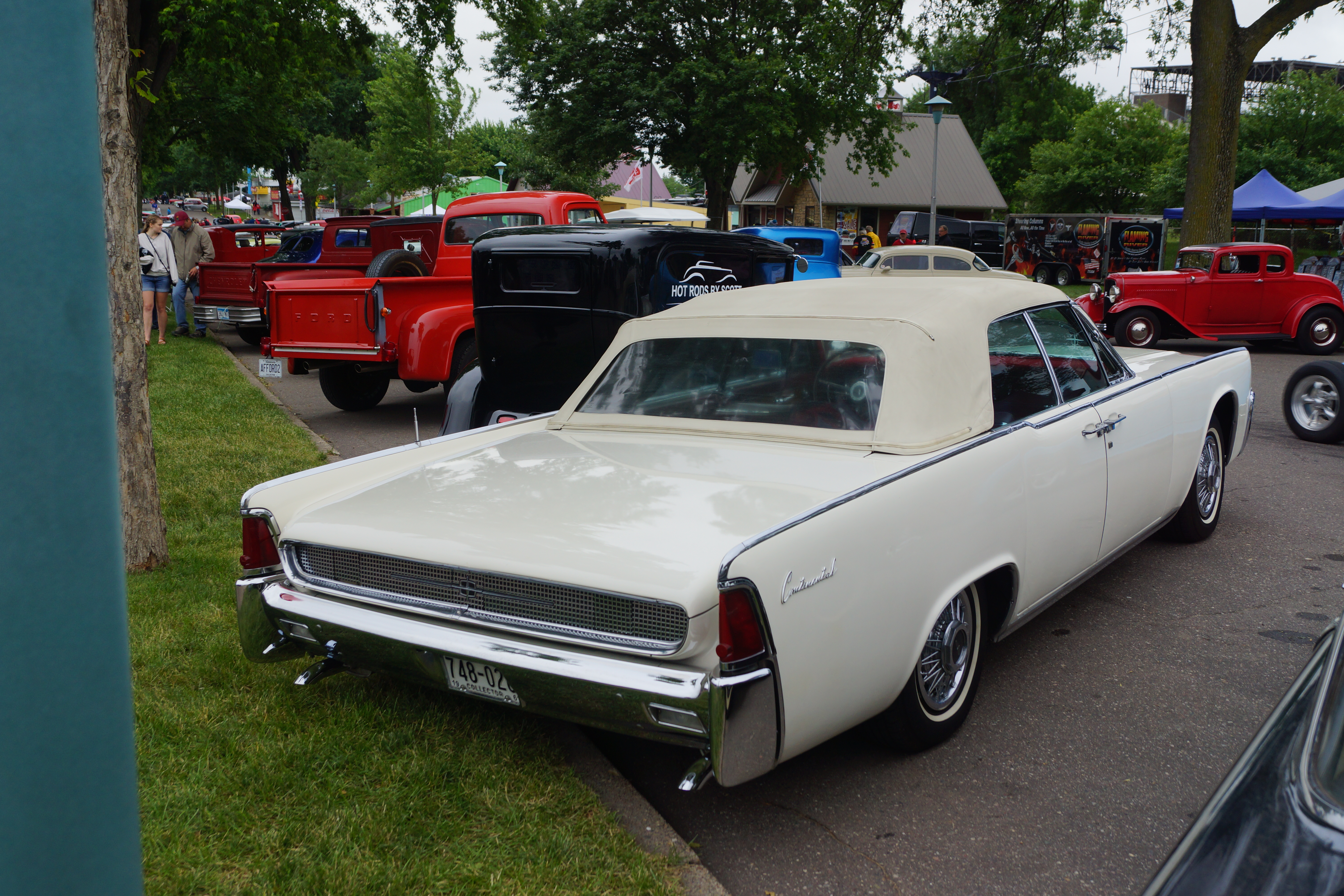 Minnesota Street Rod Association (MSRA) “BACK TO THE 50′s” 44th Annual Car Show June 23-25, 2017 Minnesota State Fairgrounds St. Paul Minnesota Click here for previous "Back to the 50's" pictures.. Click here for more car pictures at my Flickr site. Or here for my Car Crazy Tumblr site. Or on Twitter @DVS1mn.